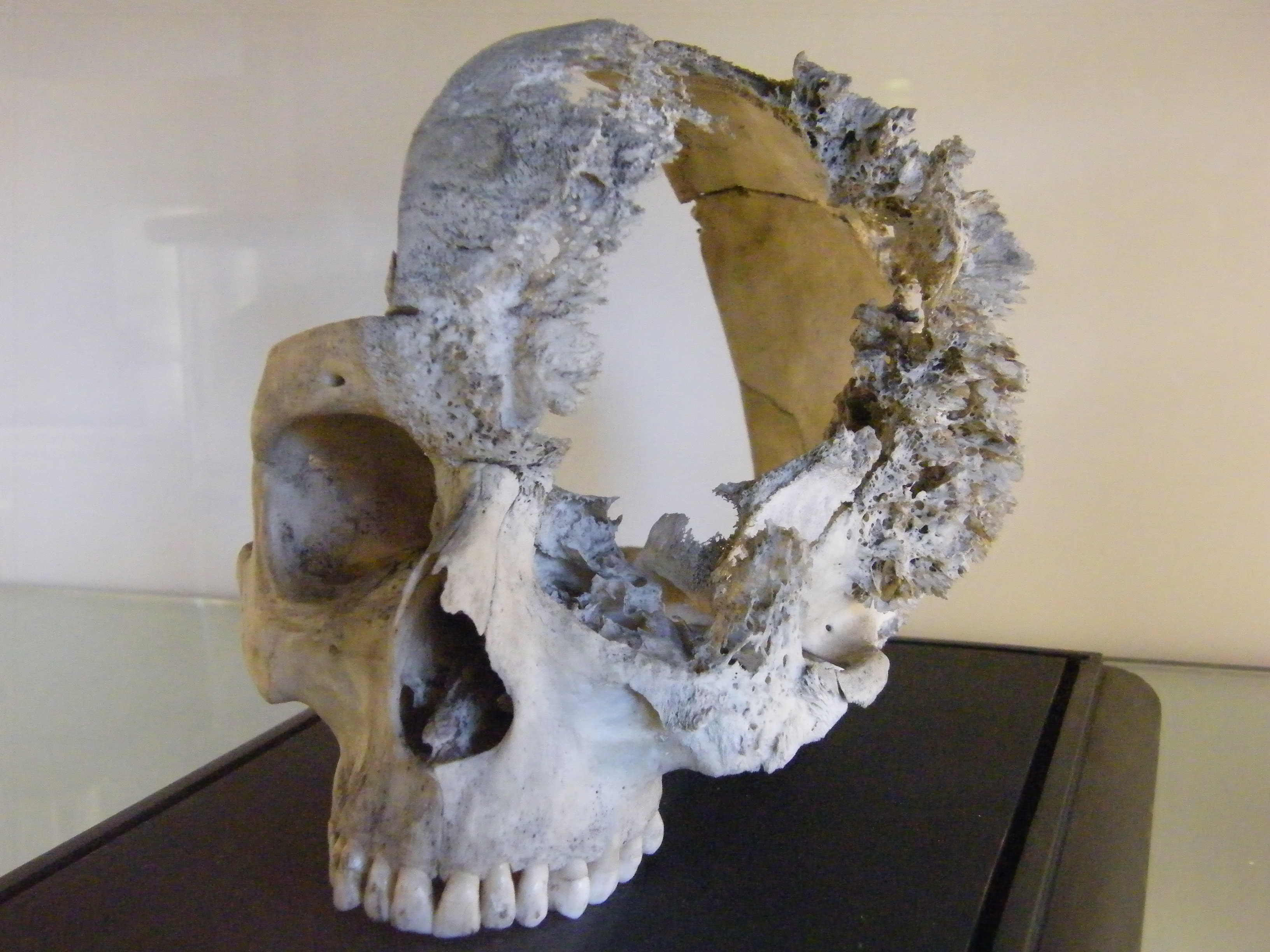 Skull showing extensive damage from a sarcoma - a cancer arising from the connective tissue. This photo was taken as part of Britain Loves Wikipedia in February 2010 by Dave Russ.